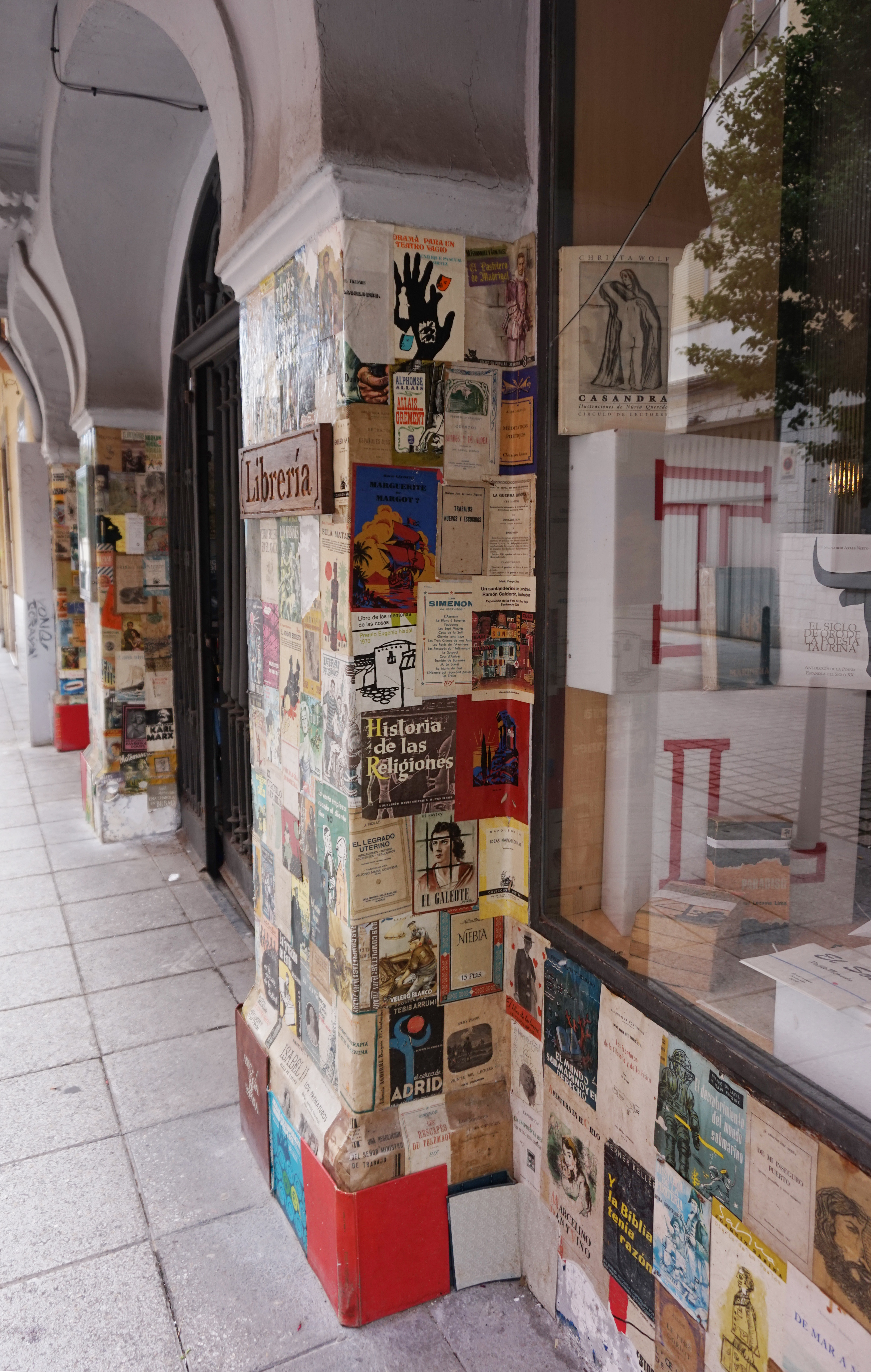 A book shop in Santander. This photograph was taken with a Sony Alpha a5000.